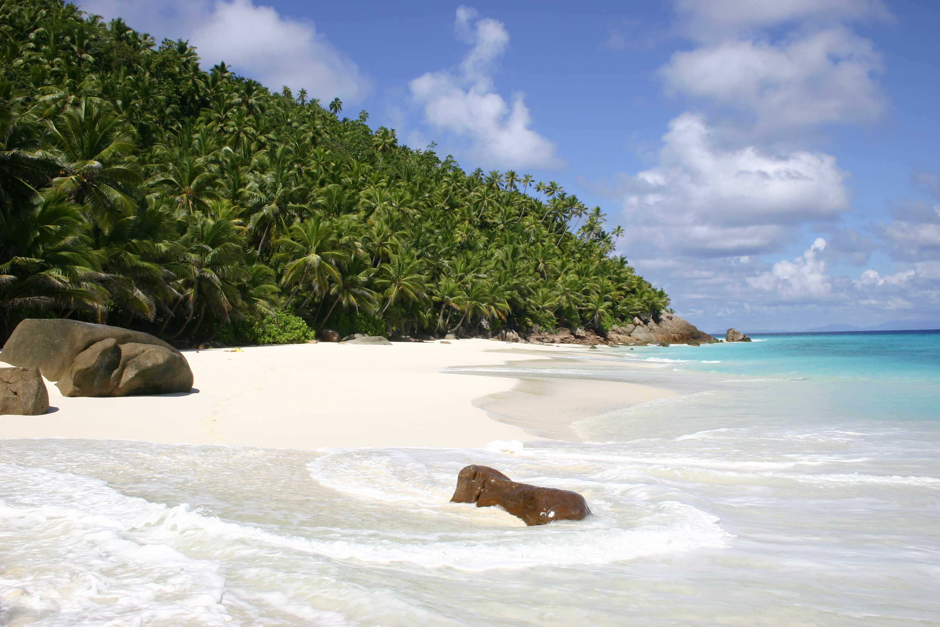 Anse Victorin, Fregate Island, Seychelles